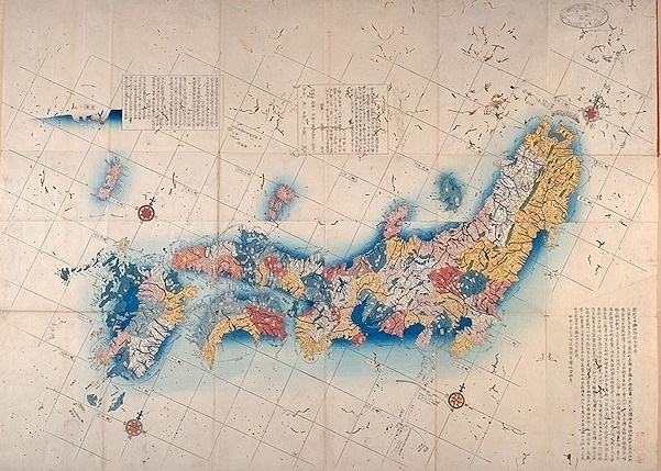 Sekisui NAGAKUBO "Nihon Yochi Rotei Zenzu (1775)